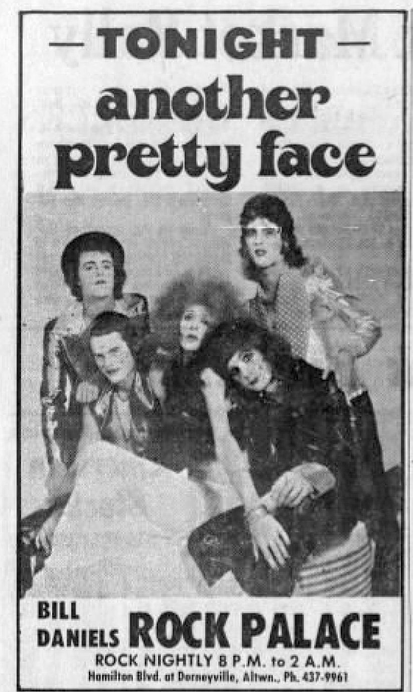 Bill Daniels advertisement for a concert by T. Roth and Another Pretty Face - 19 Dec. 1973 Morning Call, Allentown PA